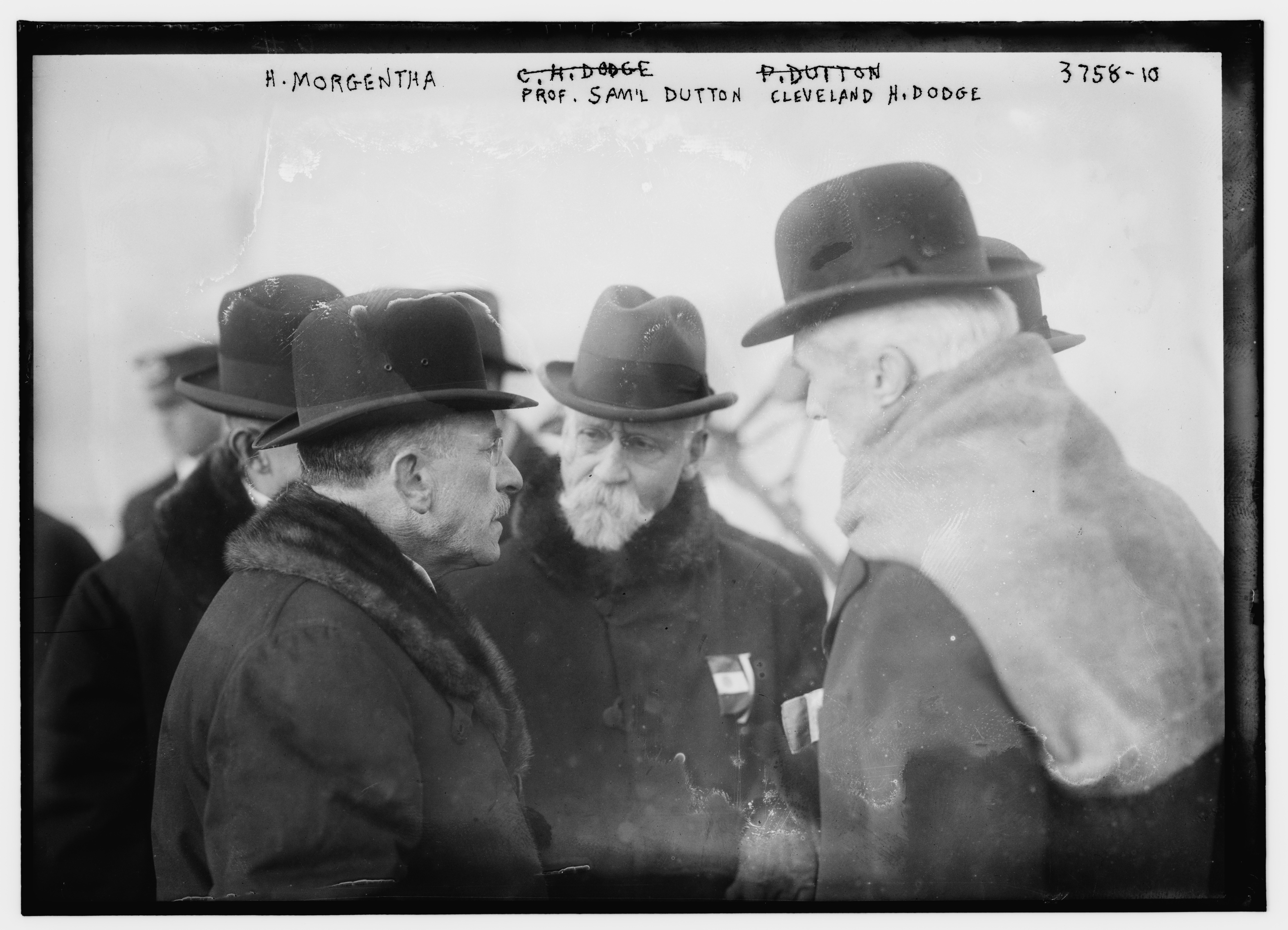 Henry Morgenthau, Sr. and Samuel Train Dutton and Cleveland Hoadley Dodge in 1916. Image from the Library of Congress.